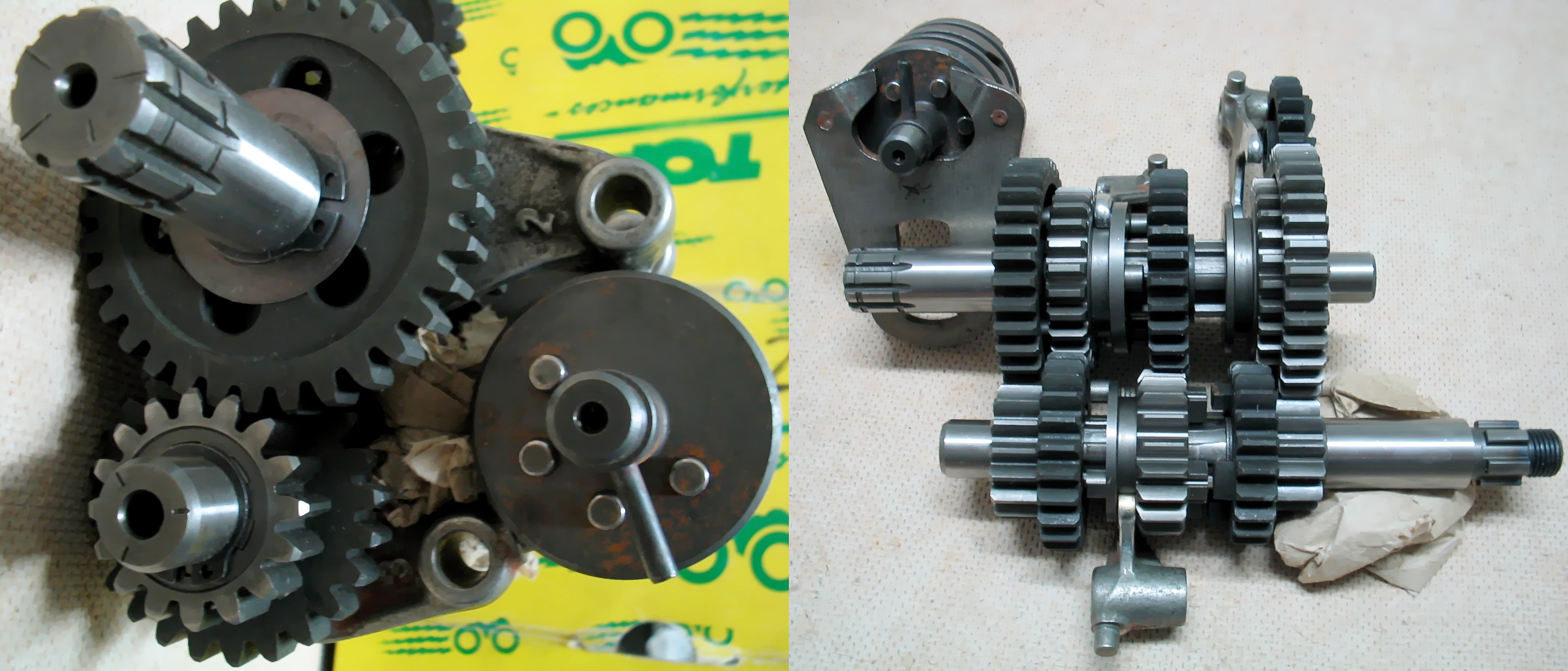 Transmission 5-speed with front engagement with the first gear inserted and a kick directly on the driven gear that meshes with the first. To address both with and without the shift drum and selector fork sorter brands.